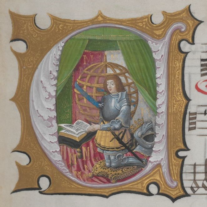 A contemporary depiction of King Manuel I of Portugal in his own illuminated Liber Missarum, commissioned on the occasion of his second marriage (to Maria of Aragon, in 1500). The king is praying, kneeling on a cushion, before an open book and under a canopy; behind him is an oversized armillary sphere (the King's personal device). He wears full armour, the crowned helmet resting by his feet. The red drapery that covers the hassock is embroidered with several upper-case M's – for Manuel and Maria.